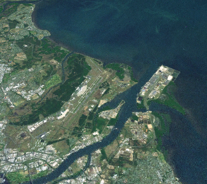 Brisbane Airport NASA World Wind Landsat montage.